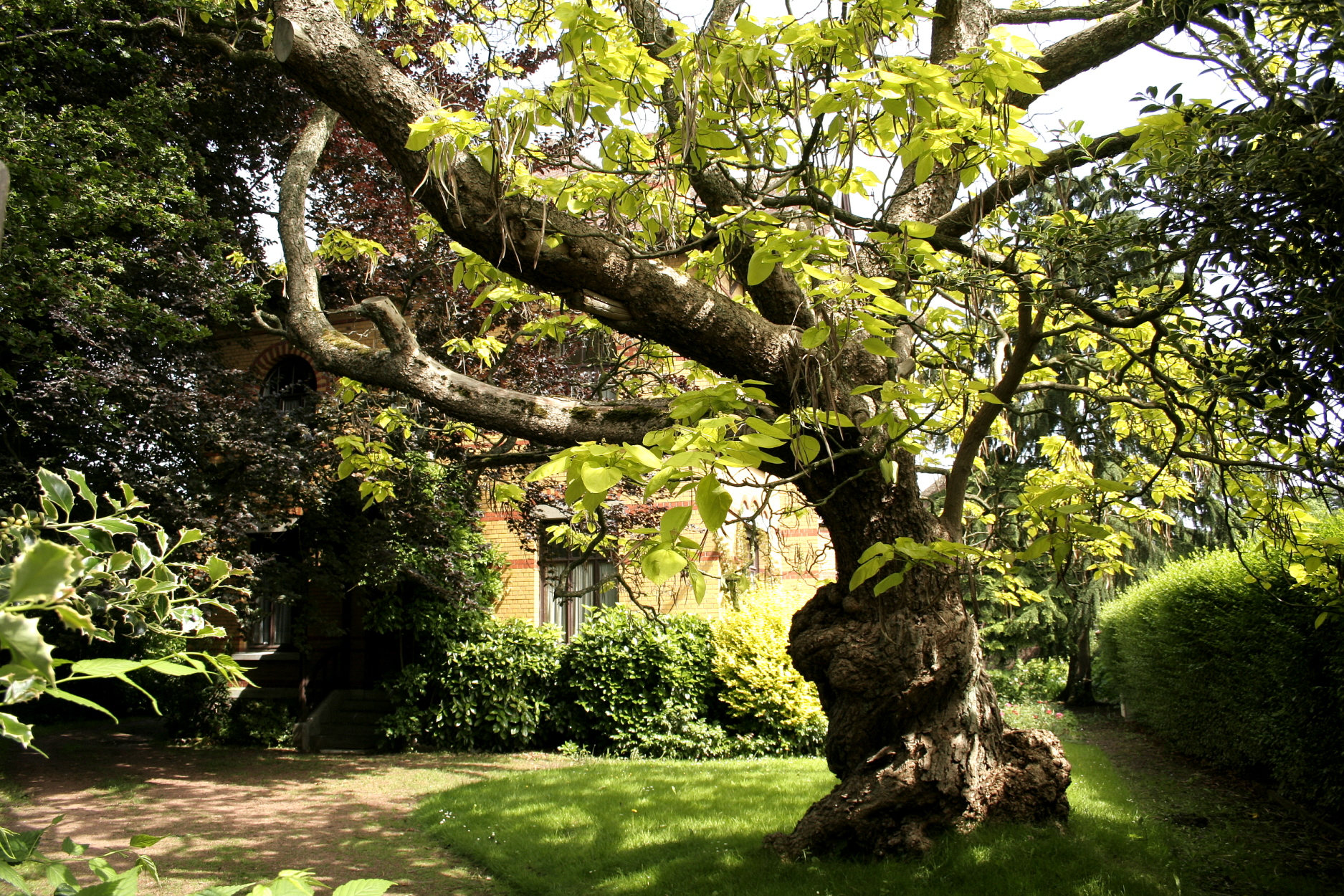 Southerne catalap cv. Aurea.